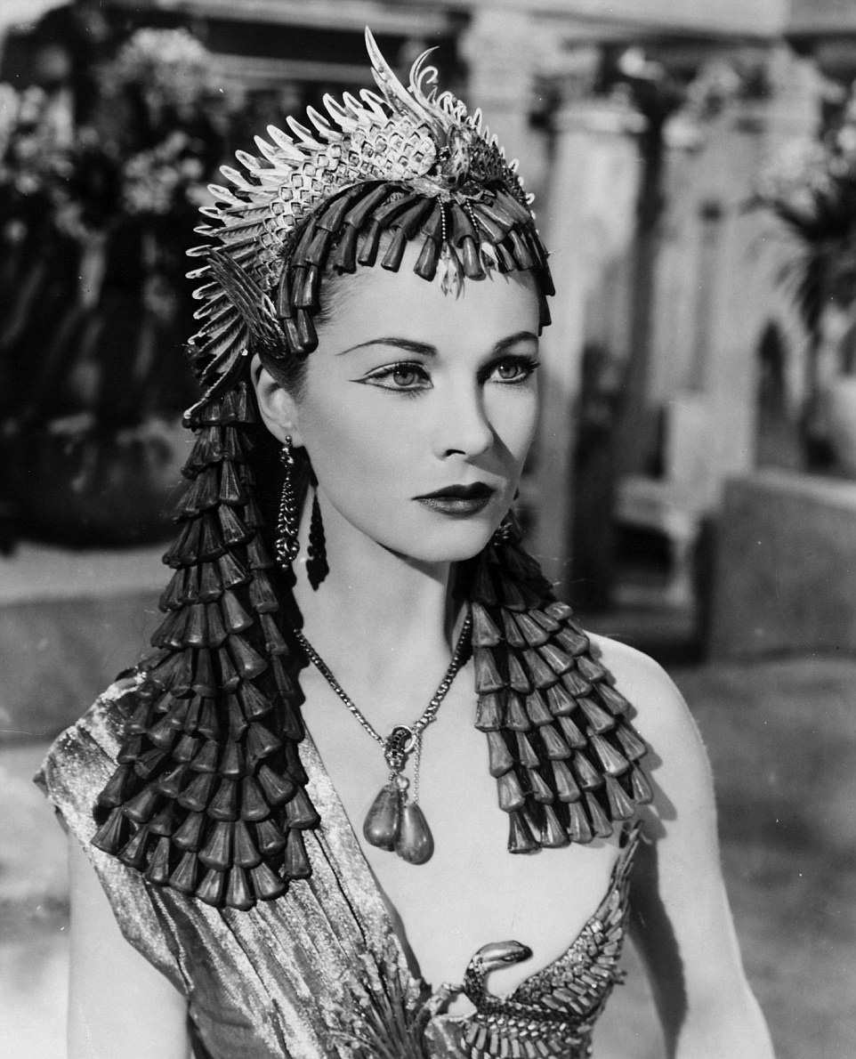 Vivien Leigh as Cleopatra in "Caesar and Cleopatra" (Film still)